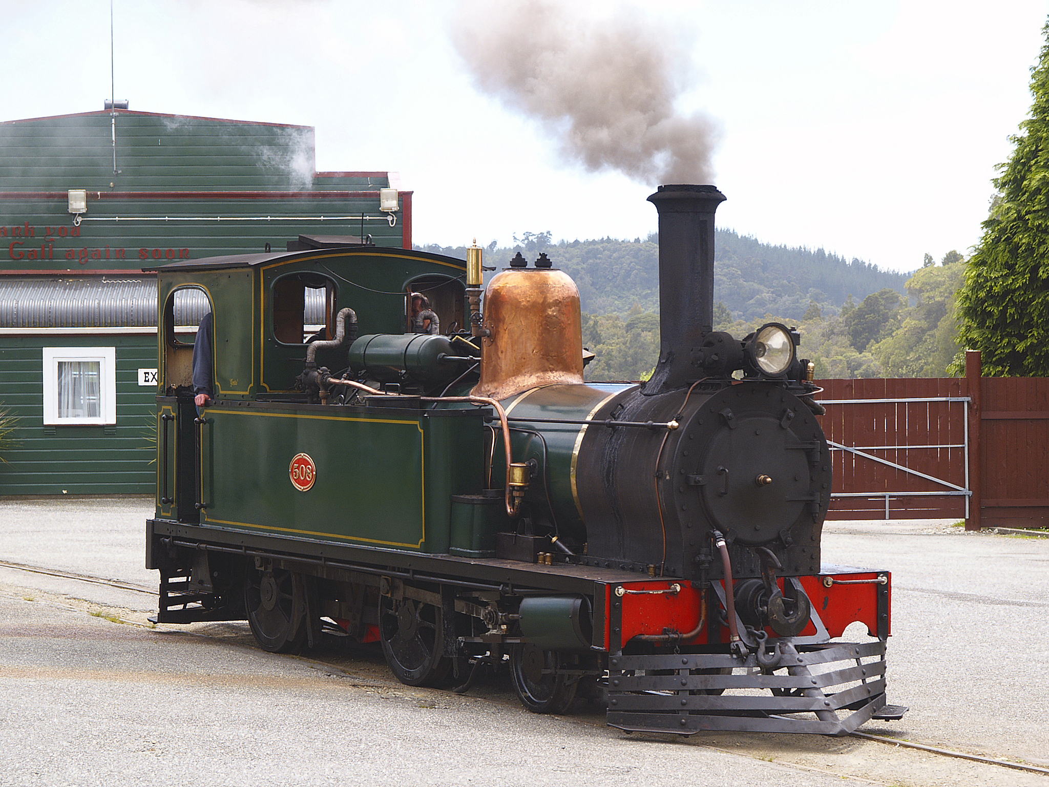 Locomotive NZR L 508 in Shantytown Heritage Park, West Coast, South Island, New Zealand, built 1877 by Avonside Engine Company, Bristol, England